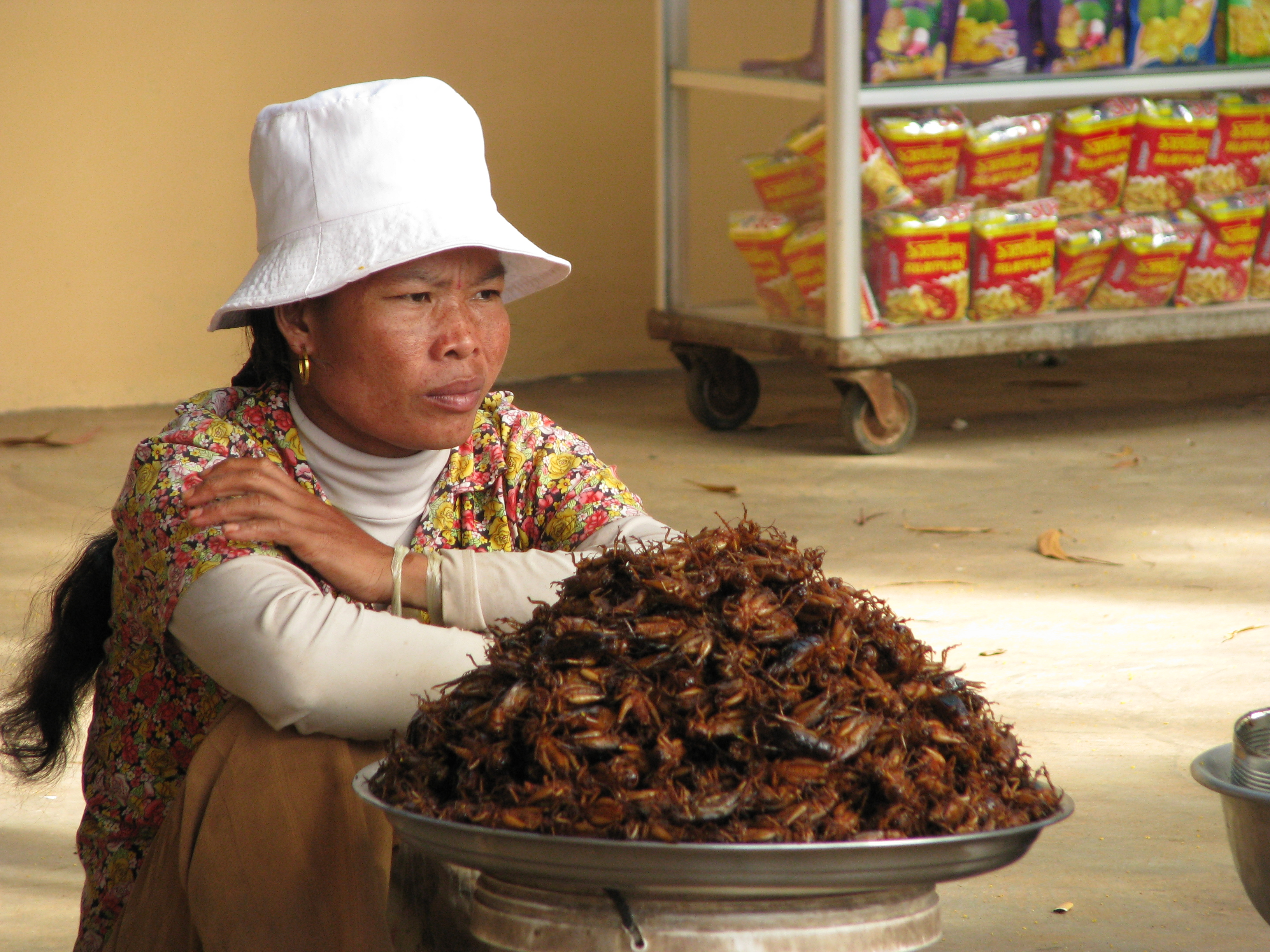 Yummy crunchy deep-fried crickets sold by the bag for on-the-go snacks at the bus station market. The guy next to me bought a bag and offered some. They were ok.